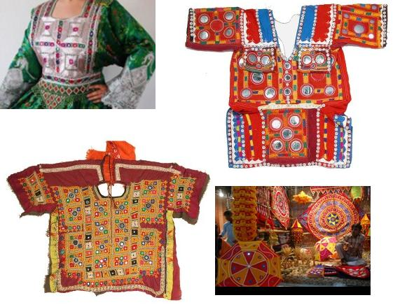 Saraiki children wearing cloths & saraiki Fashion ofr children